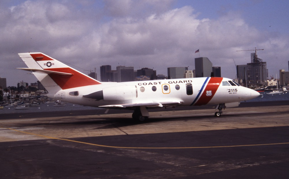 PictionID:43724722 - Title:Dassault HU-25A 2115 USCG San Diego 12May89 [RJF] - Catalog:17 - Filename:17.S_000273.tif - ----Image from the René Francillon Photo Archive. This images is from a 35mm slide. Having had his interest in aviation sparked by being at the receiving end of B-24s bombing occupied France when he was 7-yr old, René Francillon turned aviation into both his vocation and avocation. Most of his professional career was in the United States, working for major aircraft manufacturers and airport planning/design companies. All along, he kept developing a second career as an aviation historian, an activity that led him to author more than 50 books and 400 articles published in the United States, the United Kingdom, France, and elsewhere. Far from “hanging on his spurs,” he plans to remain active as an author well into his eighties.-------PLEASE TAG this image with any information you know about it, so that we can permanently store this data with the original image file in our Digital Asset Management System.--------------SOURCE INSTITUTION: San Diego Air and Space Museum Archive